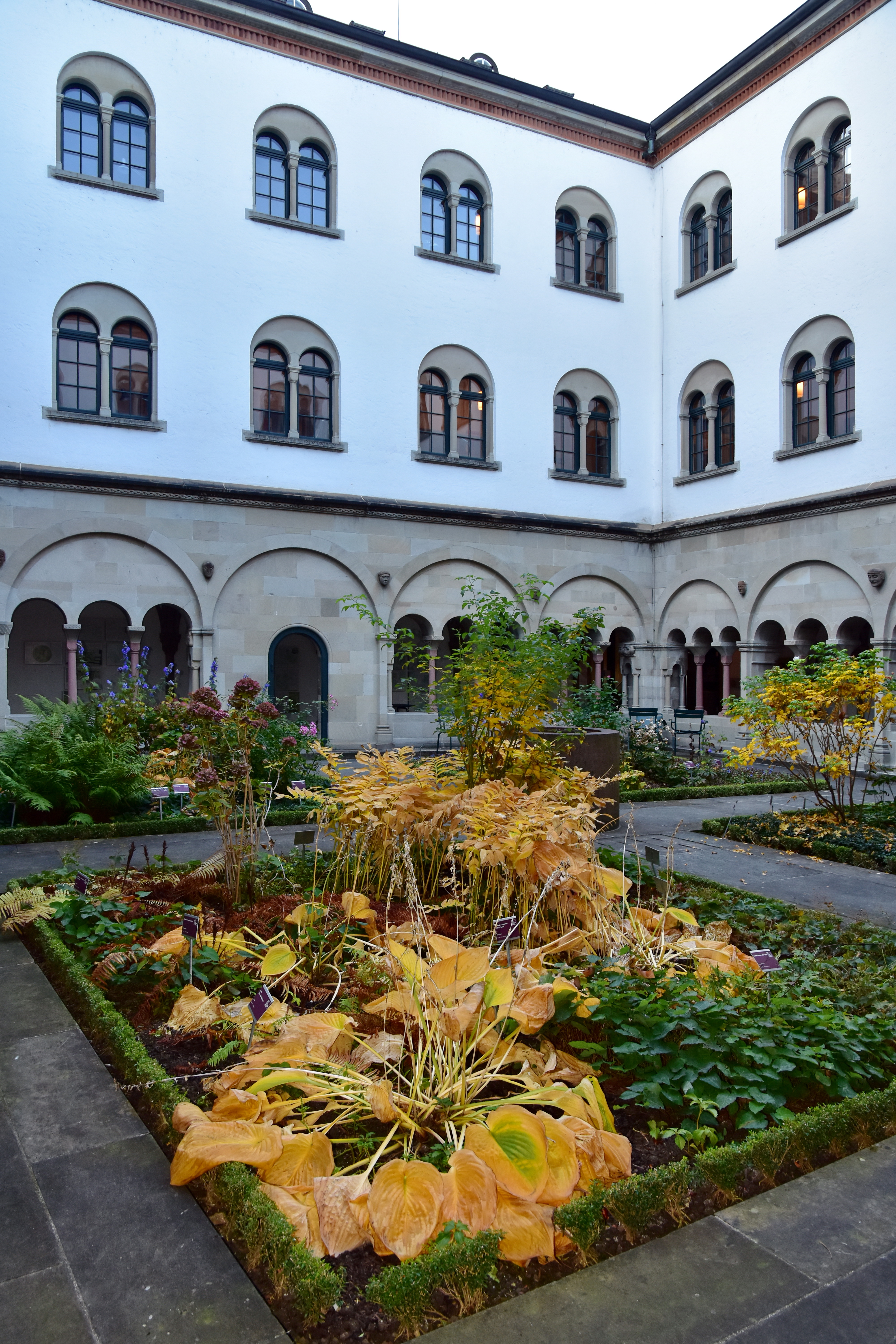 Theologisches Seminar (Carolinum) University of Zurich, respectively former Höhere Töchterschule college in Zürich (Switzerland) respectively cloister of Grossmünster